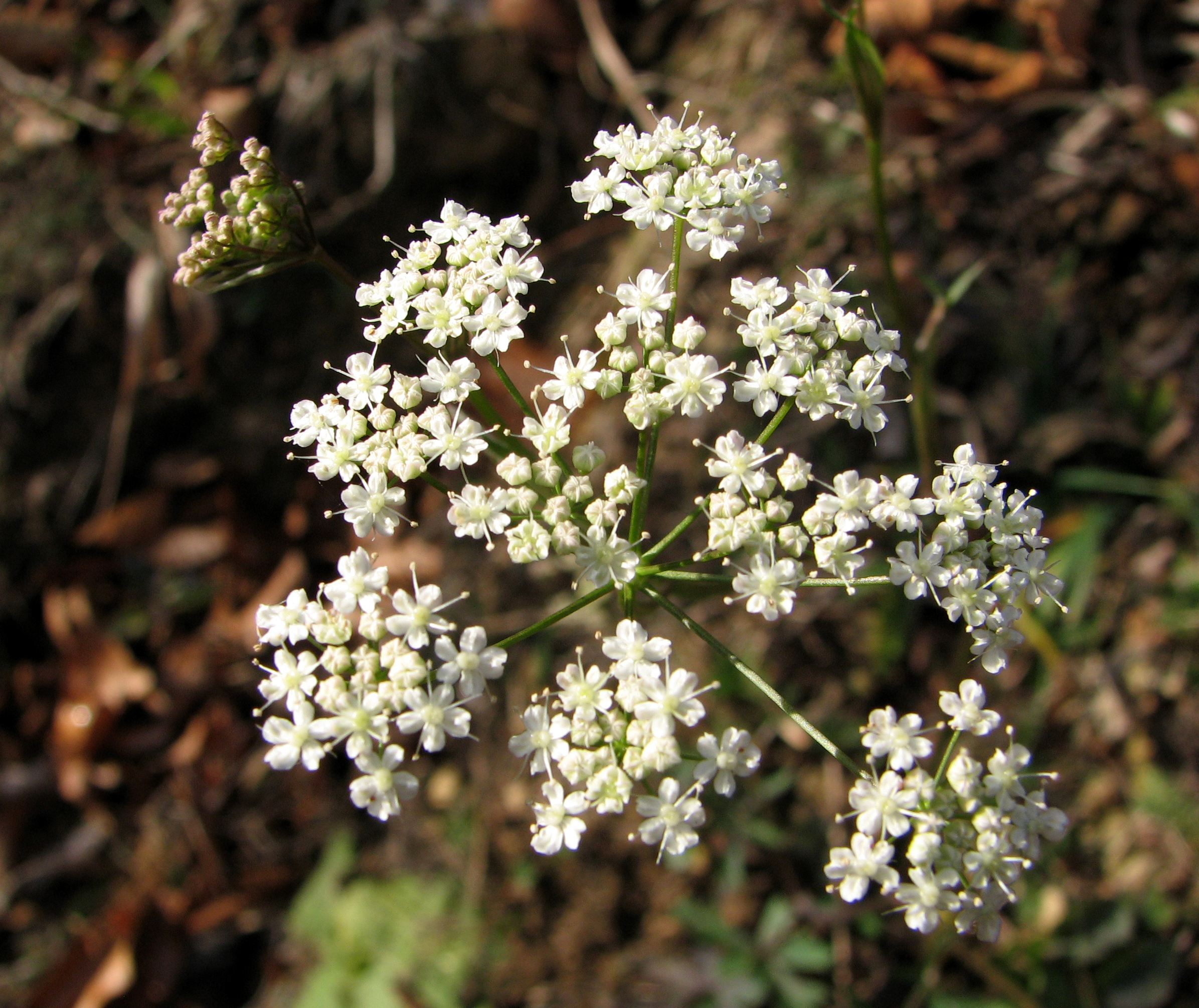 Pimpinella saxifraga subsp. saxifraga, flowers